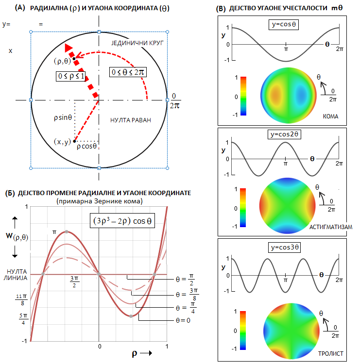 ЈЕДИНИЧНИ КРУГ ЗЕРНИКЕА, ОСНОВНЕ ФУНКЦИЈЕ АБЕРАЦИОНОГ ИЗРАЗА